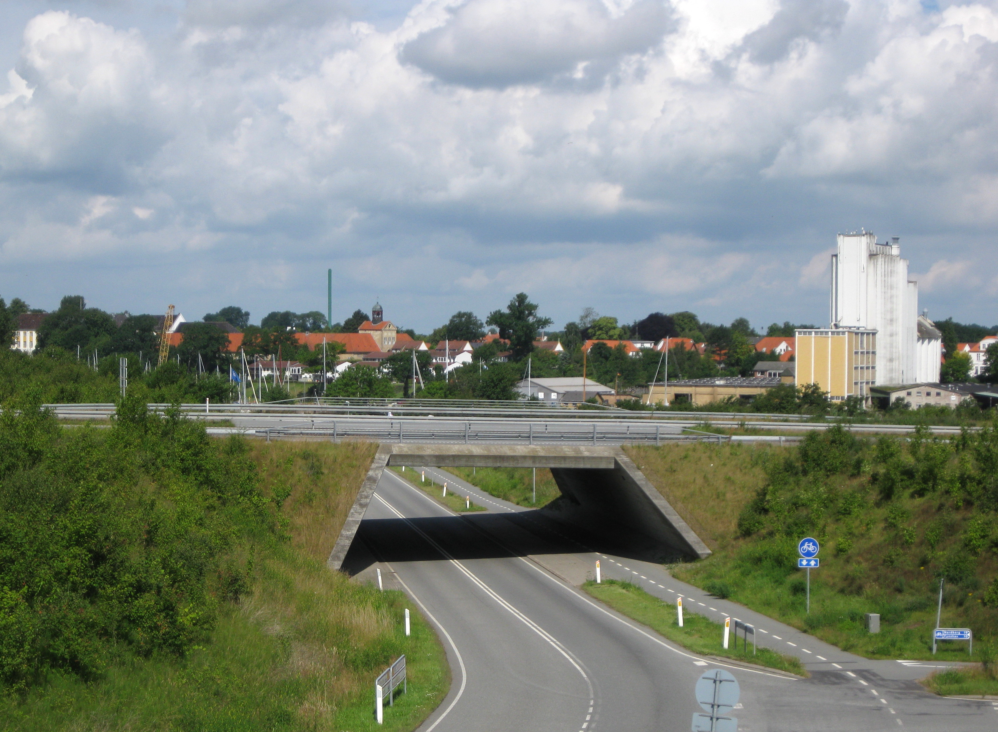 View at the small town "Augustenborg". The town is located at the island "Als" nearby Southern Jutland in south Denmark.